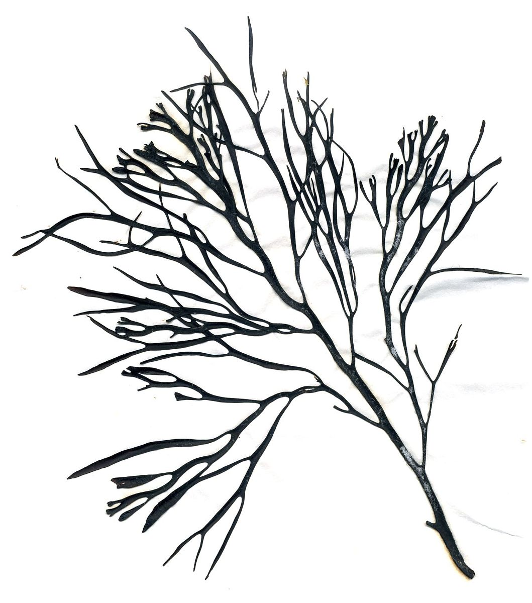 Halidrys siliquosa (L.) Lyngb., herbarium sheet. Collected 1985-09-10, Heligoland (Germany)